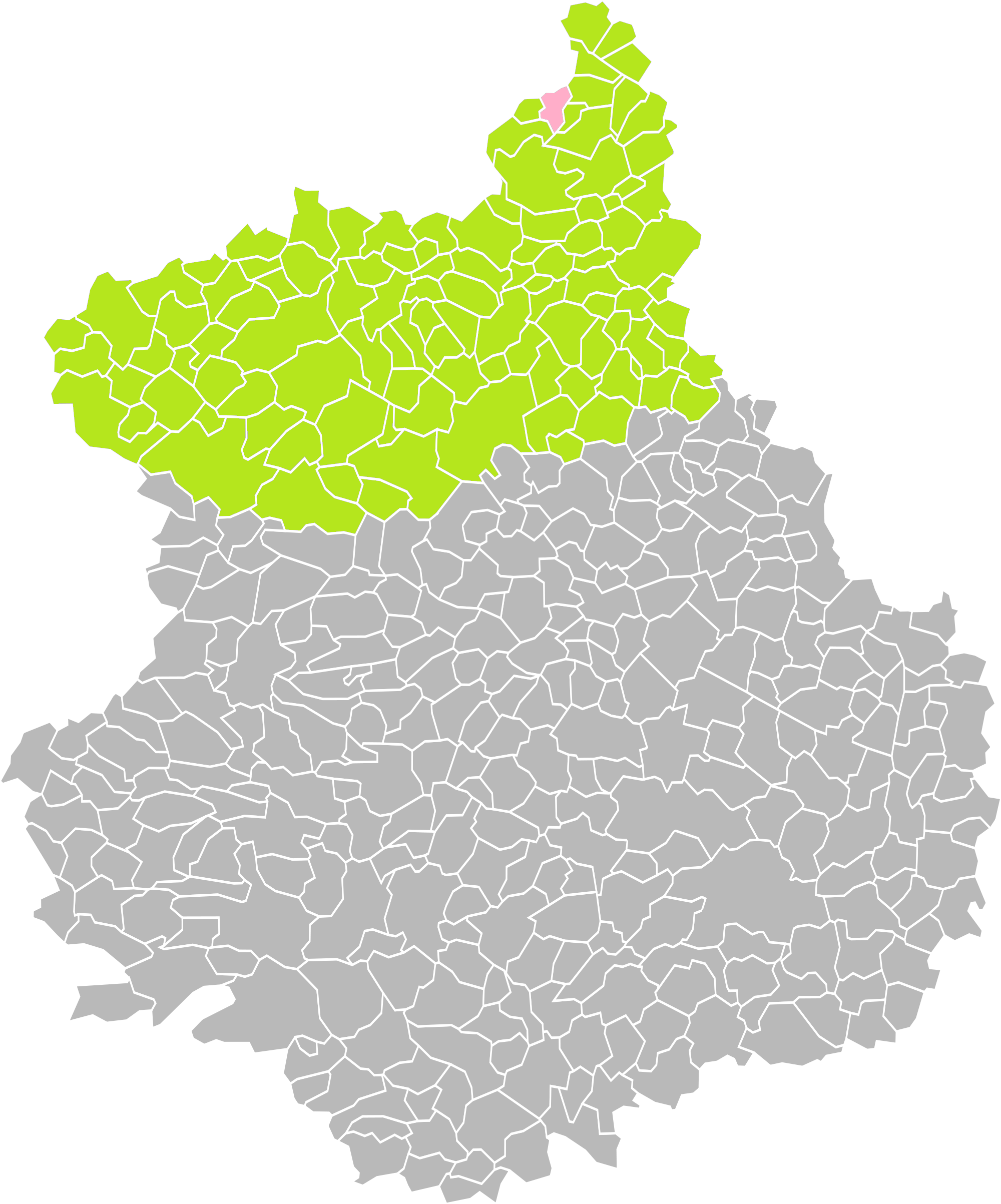 Location of the commune of Anet in the arrondissement of Dreux (Eure-et-Loir)